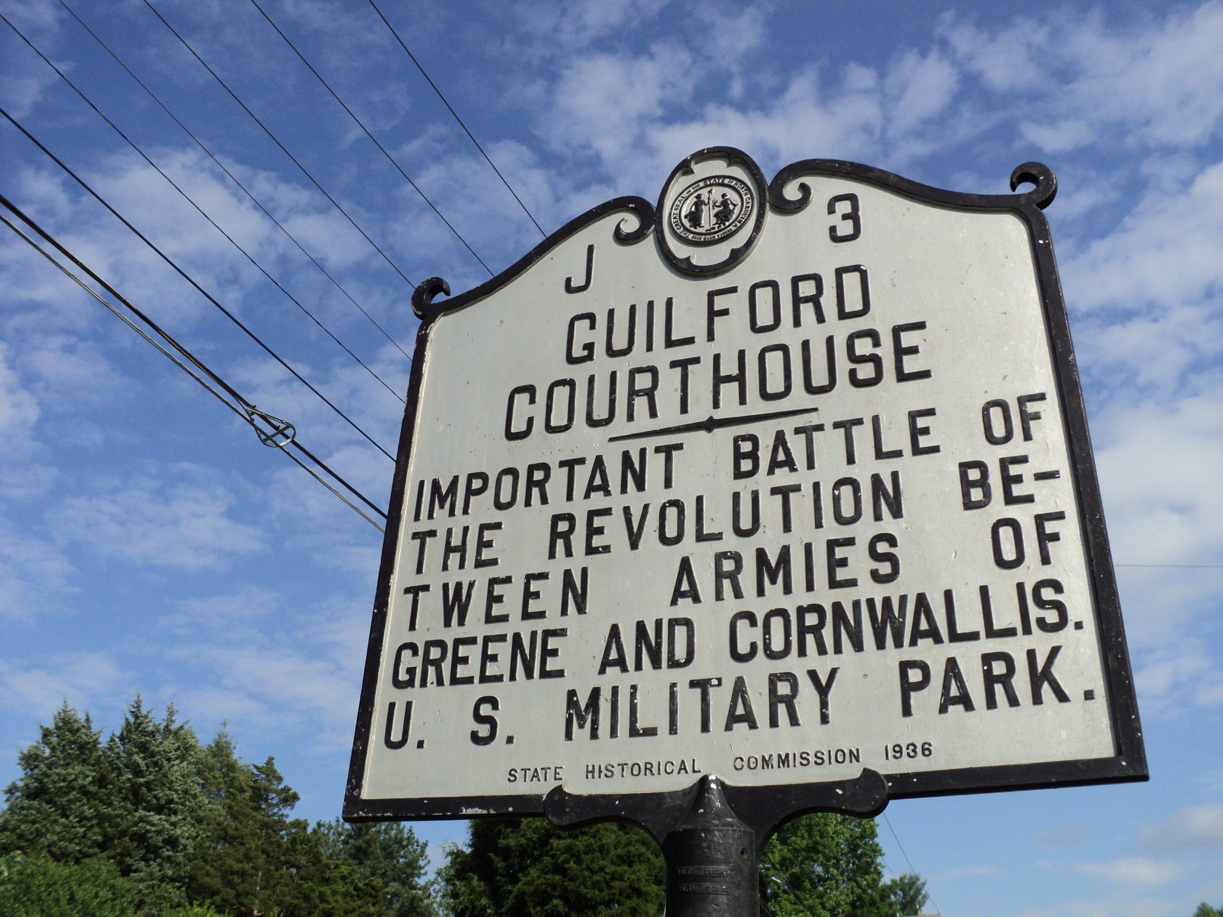 North Carolina state historical marker for Guilford Courthouse, located within the boundaries of present-day Greensboro, North Carolina. Guilford Courthouse was the site of a major battle of the American Revolution, when forces under American General Nathanael Greene confronted the troops of British General Lord Cornwallis. The site of the battlefield is today a United States Military Park.